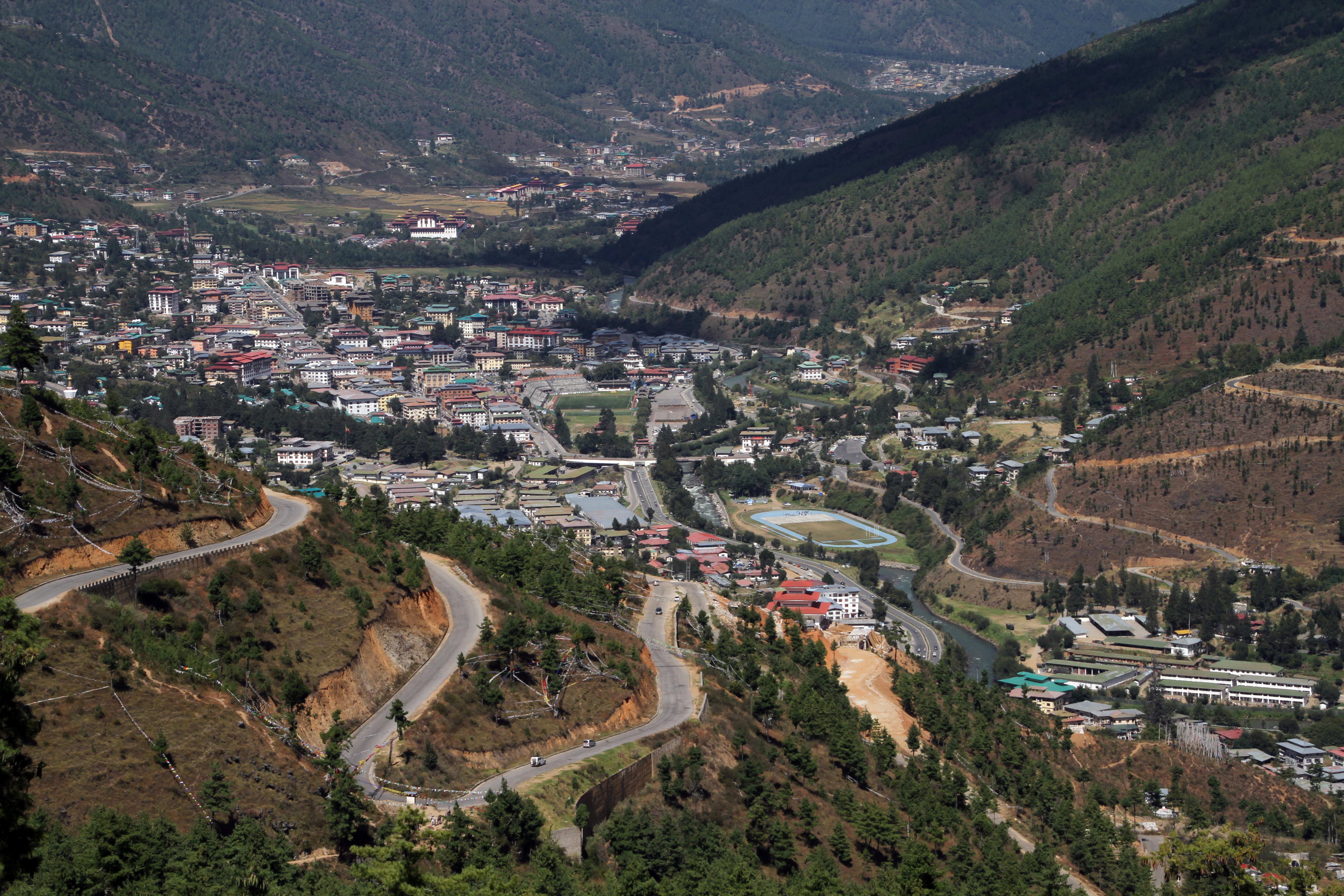 View of Thimphu city